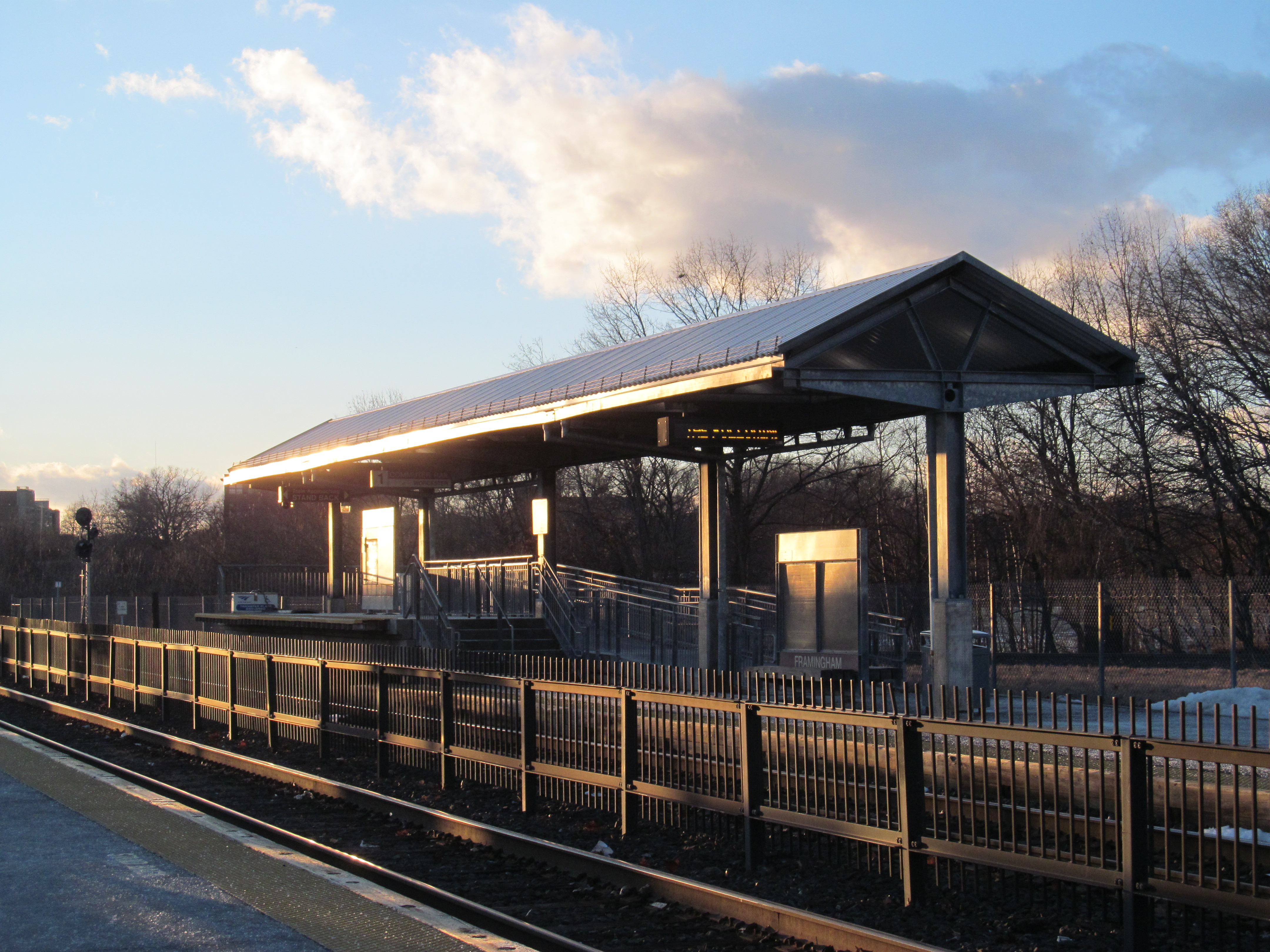 2001-built mini-high platforms at Framingham station in January 2015